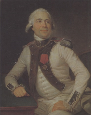 Bildnis des Jean-Baptiste Gabriel, capitaine du regiment de Brie Unidentified location Location18th-century portrait painting of men, with Unspecified, Unidentified or Unknown, location and year.